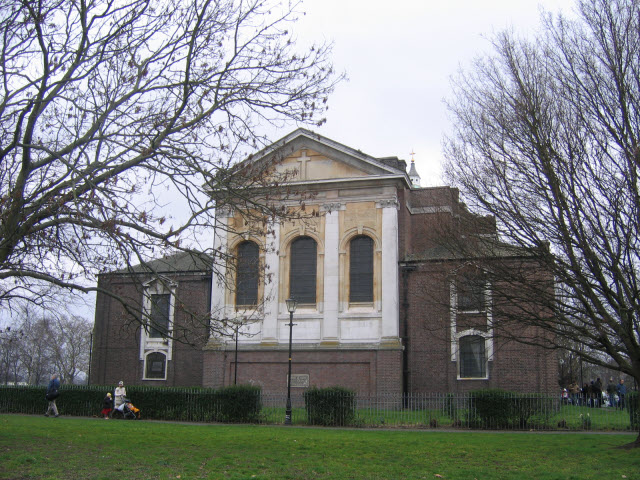 East end of Holy Trinity church. The east end of 240942. The chancel at this end of the church was added in 1903 to the design of Beresford Pite. The church is Grade 2* listed.